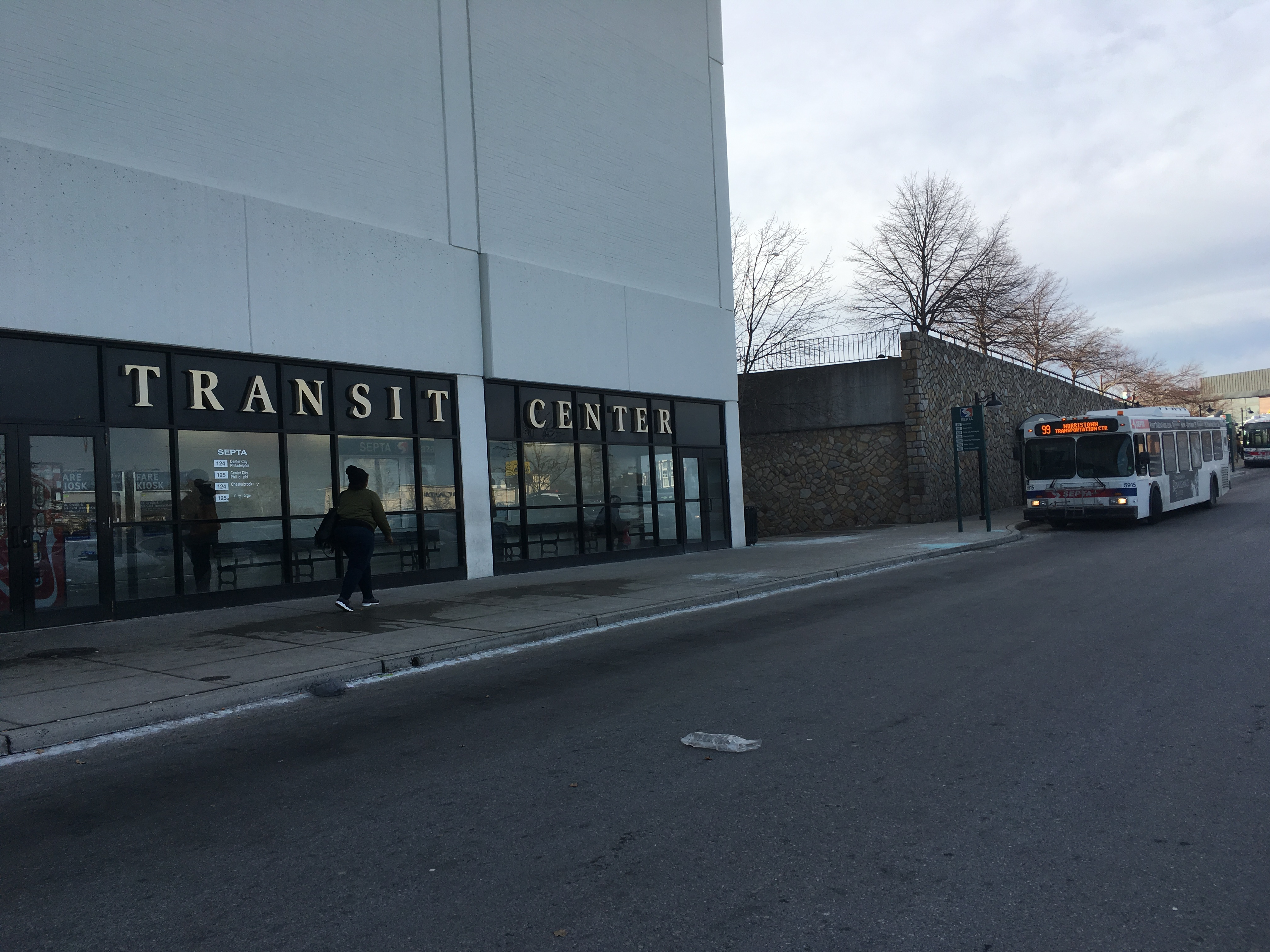 The King of Prussia Transit Center at the King of Prussia Mall in King of Prussia, Pennsylvania